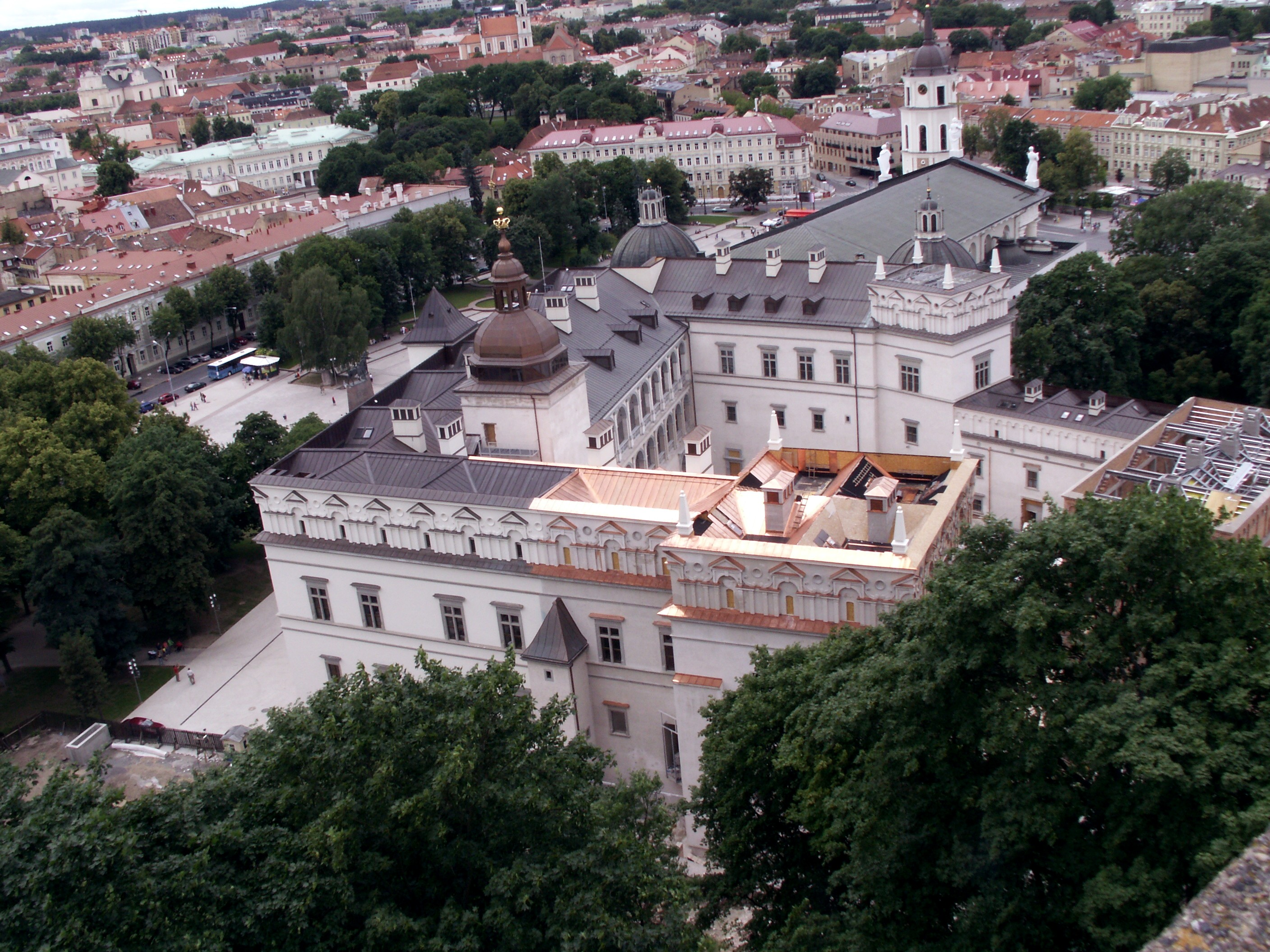 Royal Palace of Lithuania in Vilnius, Lithuania